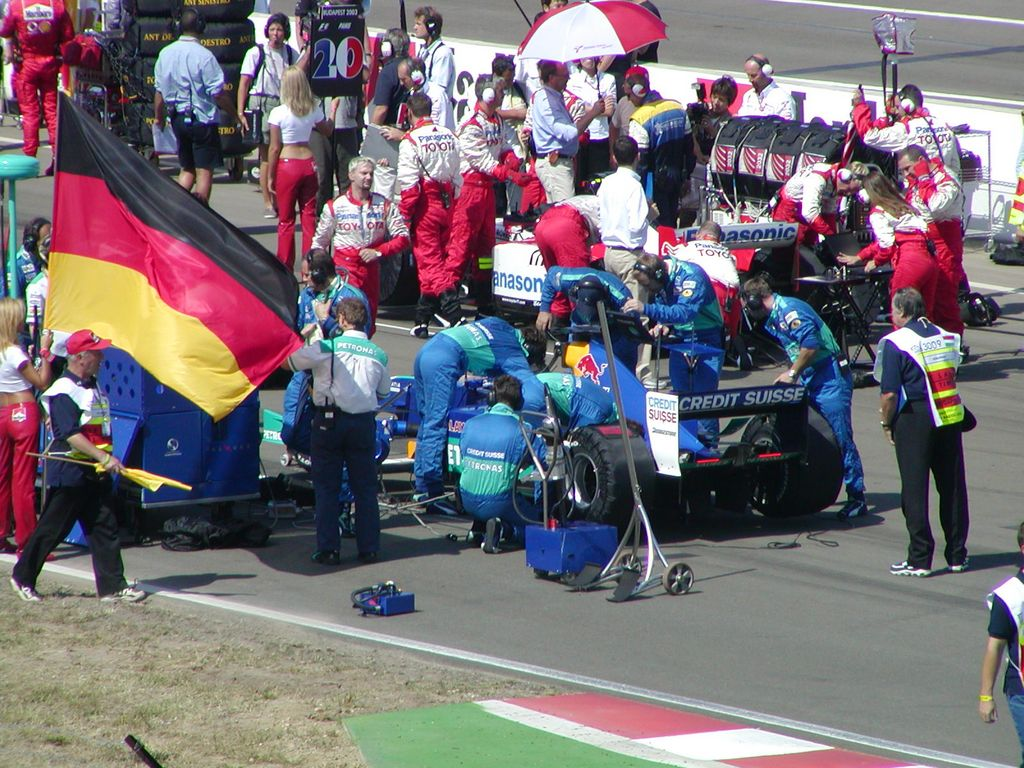 Toyota and Sauber at the start grid at the 2003 Hungarian Grand Prix.